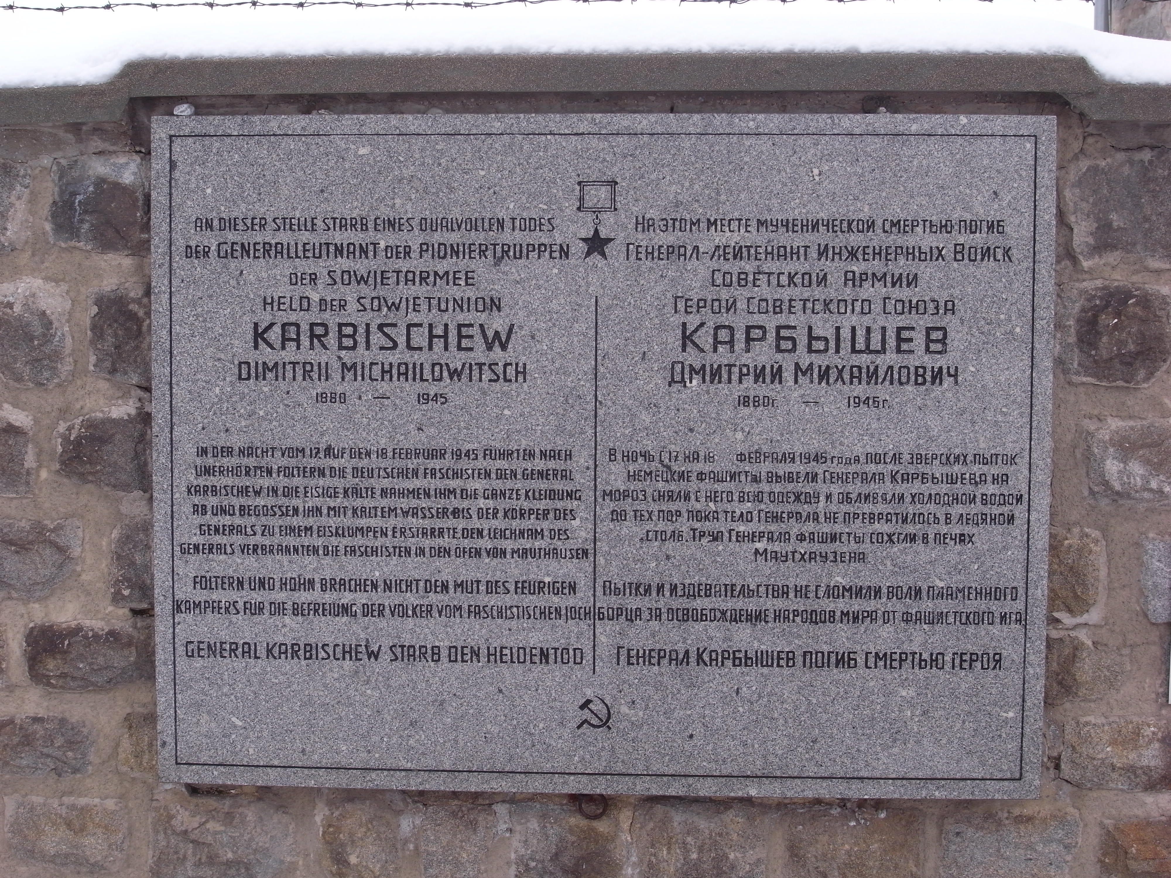 Memorial tablet in rememberence of the heroic death of the Soviet Army general Dmitry Karbyshev. The tablet is placed of the so-called "Wailing" wall of the formet concentration camp Mauthausen.